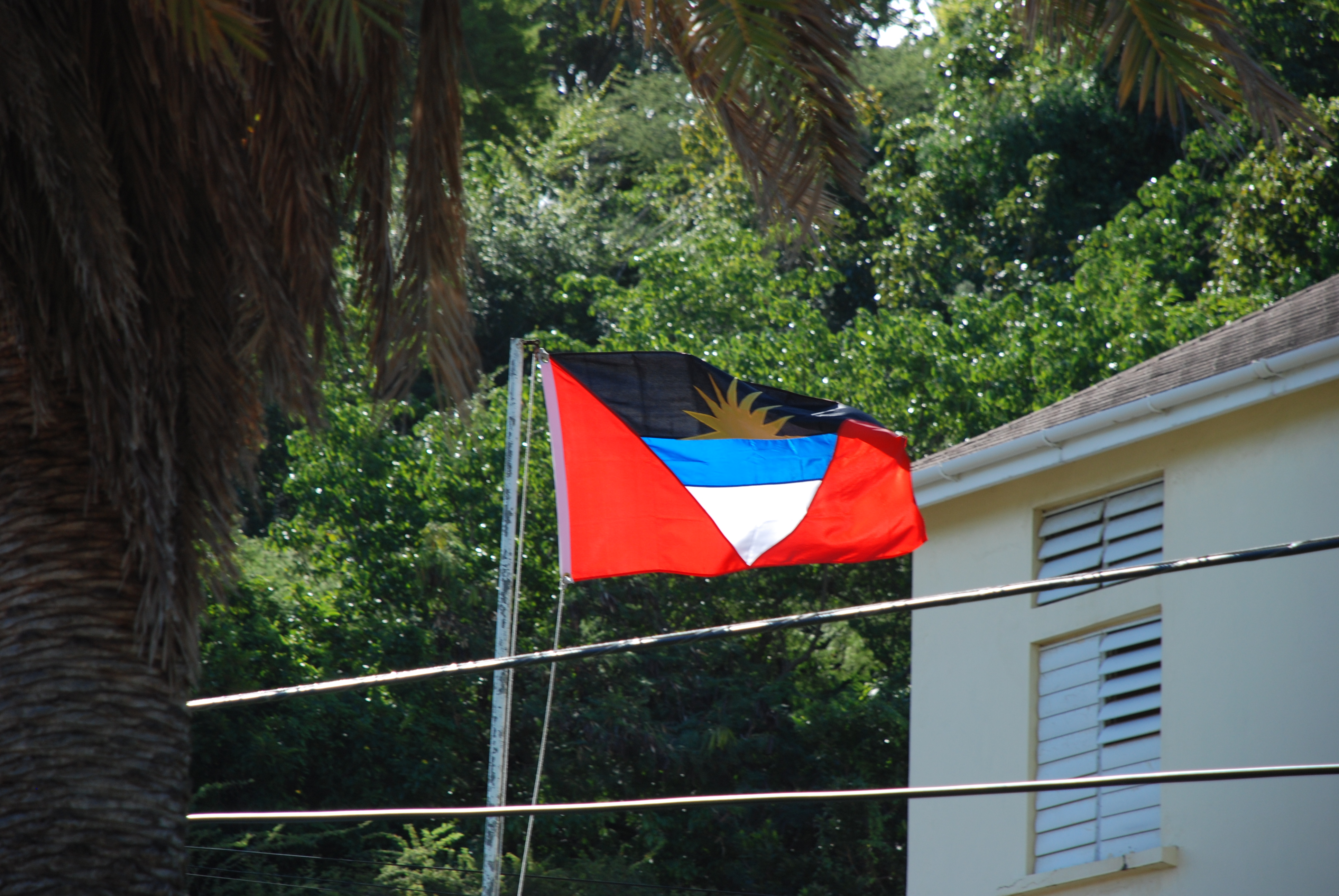 Flag of Antigua and Barbuda